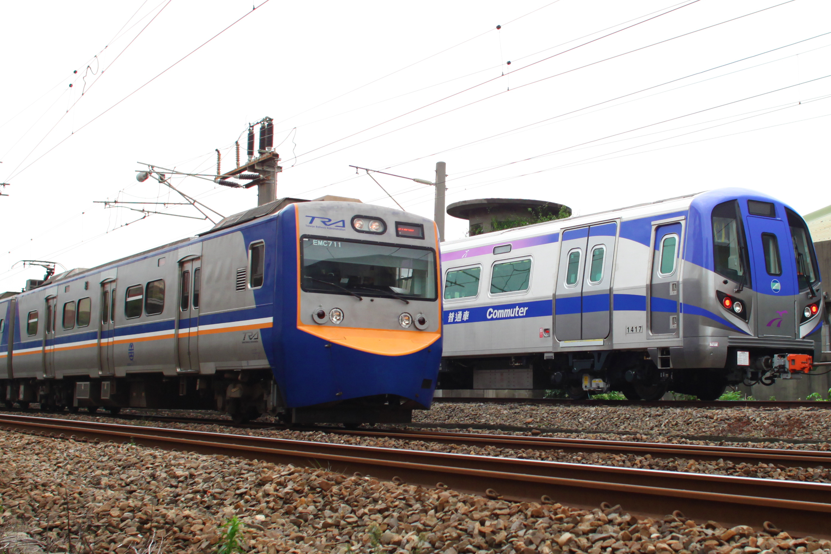 TRA EMU711 & TTY Commuter EMU 1417 at Hsinchu County.